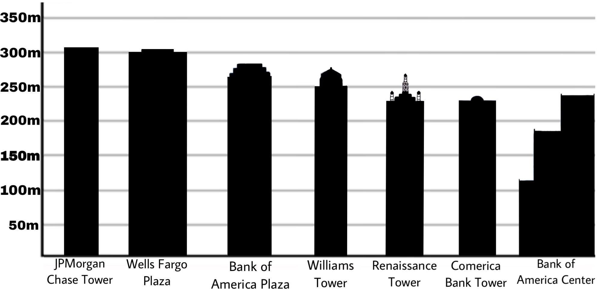 The seven tallest skyscrapers in Texas.